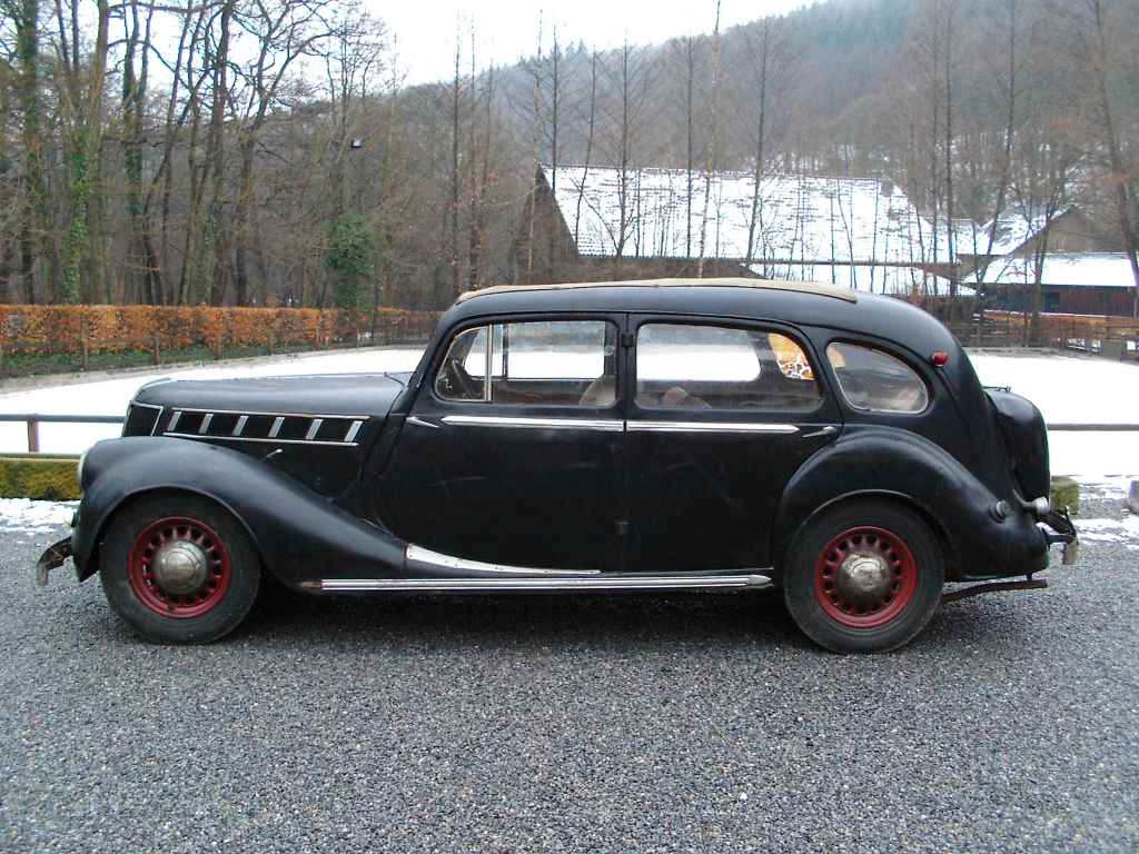 the only known Renault Vivastella, seen in Eupen, now in Austria